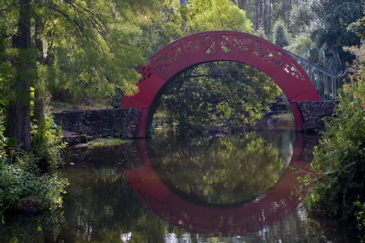 Bellingrath Gardens near Mobile, Alabama.